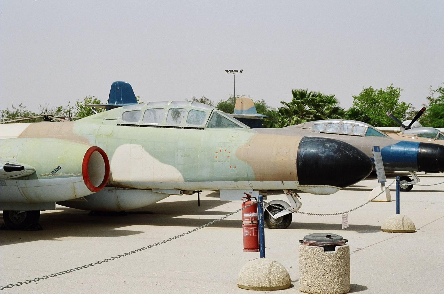 Israeli Air Force Gloster Meteor NF. 13 at the Israeli Air Force Museum in Hatzerim